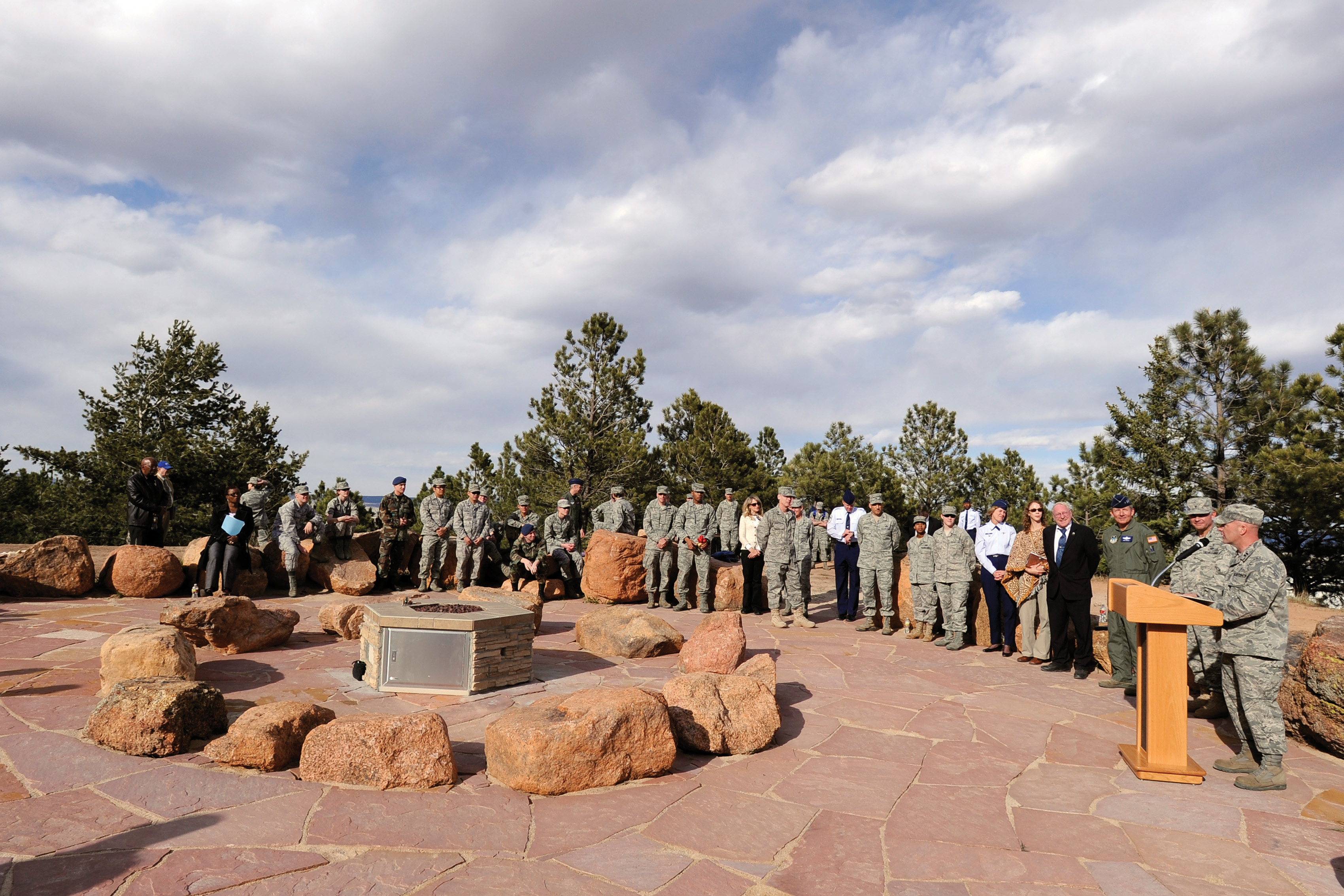 Cadet Chapel Falcon Circle, located on the hill top between the Academy Visitors Center and the Cadet Chapel, is dedicated May 6, 2011. (Photo by Mike Kaplan)